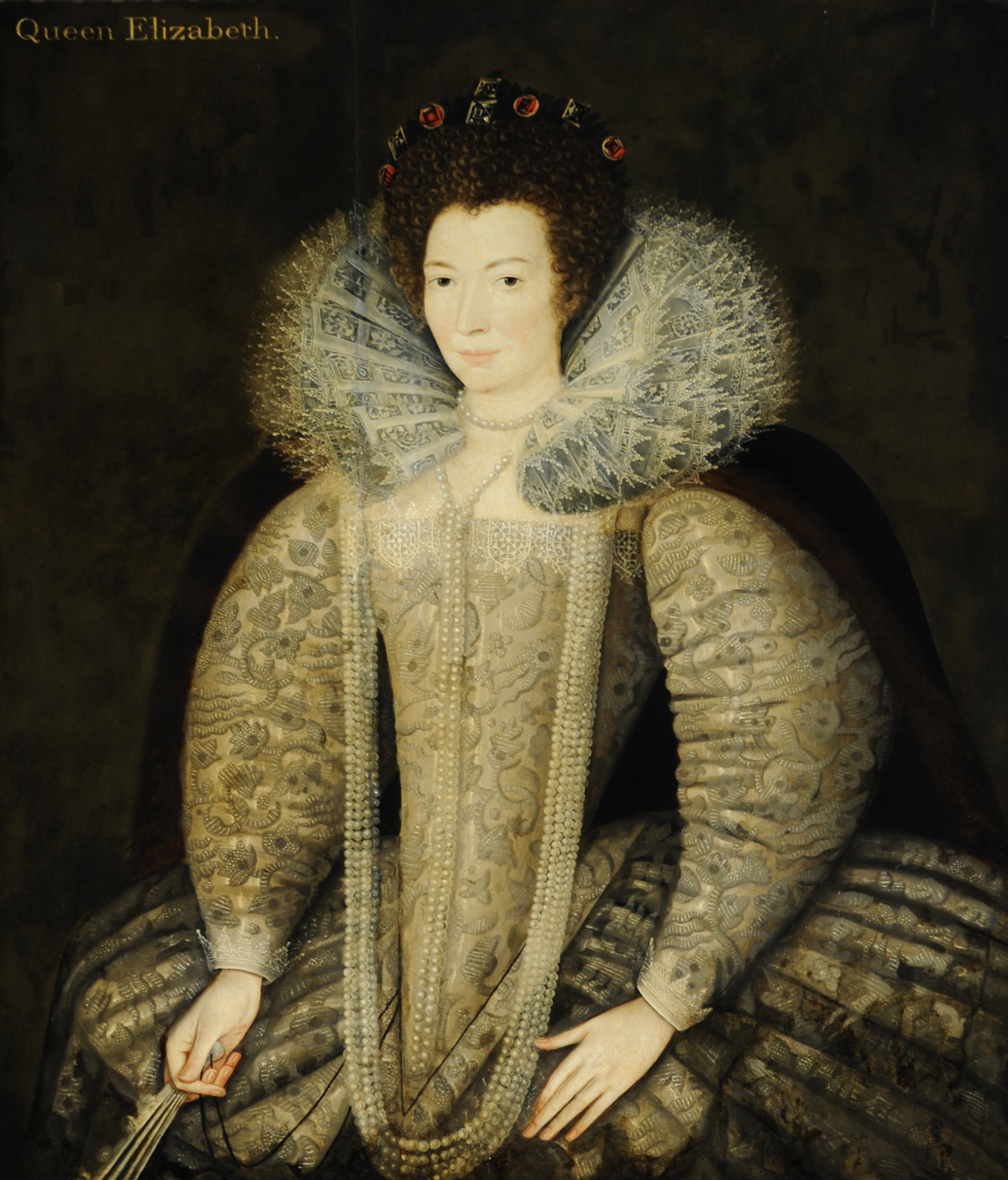 British (English) School; Mary Cavendish (1555-1632), Countess of Shrewsbury; National Trust, Hardwick Hall